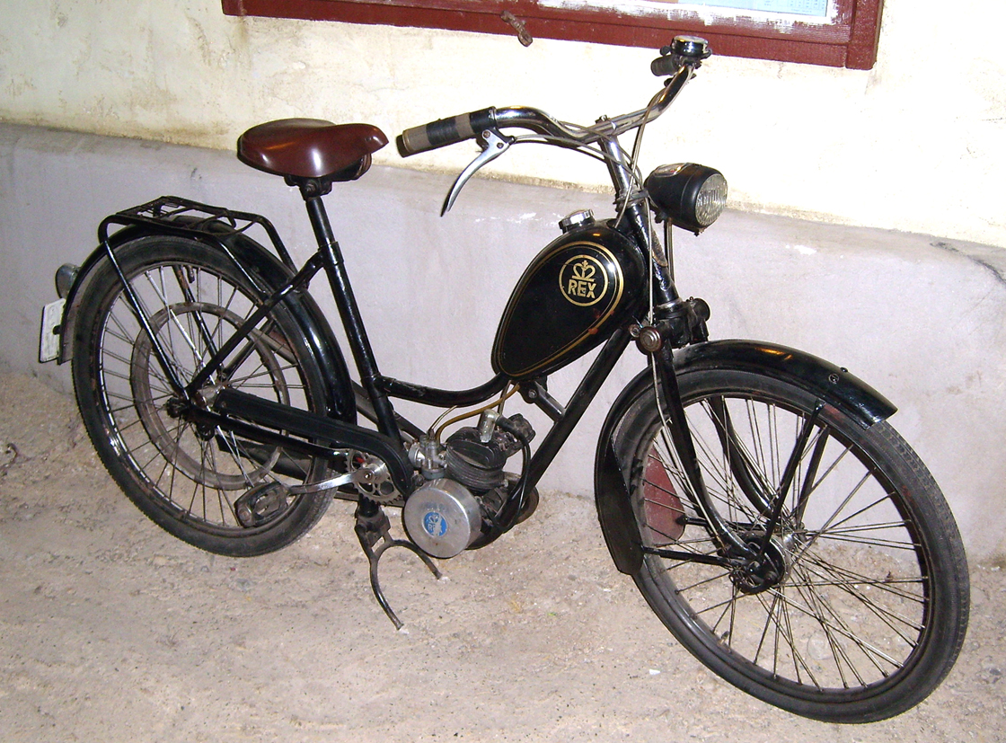 A motorized bicycle built by german "Rex", 1946